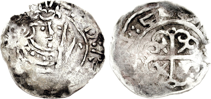 Scotland David I of Scotland. 1124-1153. AR Penny (1.28 g). Period A. Edinburgh mint. Struck circa 1136-1140s. [DA]VID : R[...], crowned bust right, holding sceptre [...]N : EO[...], Cross moline-fleury. Cf. Burns 23 (fig. 24); cf. SCBI 35 (Ashmolean & Hunterian), 3/A; SCBC 5003. VF, toned, small irregularity on edge at 11 o’clock. Very rare.